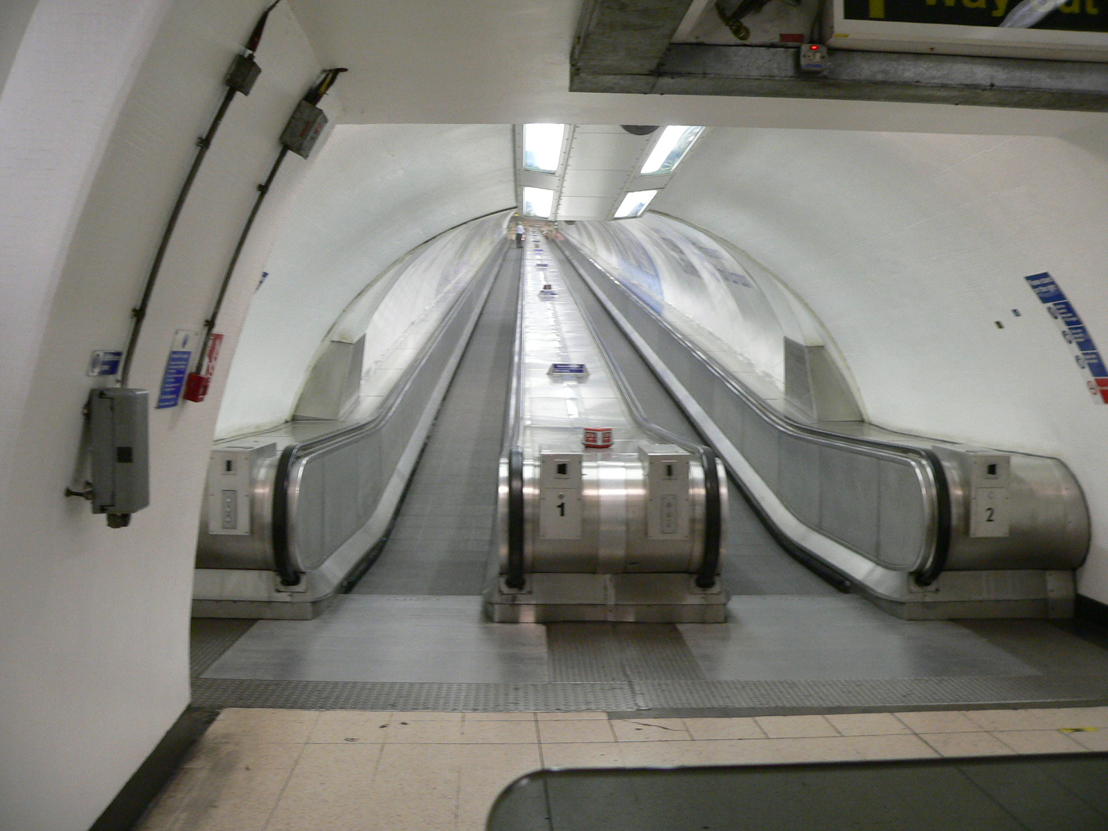 The inclined moving walkways bewtween the ticket hall and Waterloo & City Line platforms at Bank tube station - one of only two locations on the London Underground with moving walkways (the others are to the Jubillee Line platforms at Waterloo).